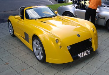 A yellow Elfin MS8 Streamliner.